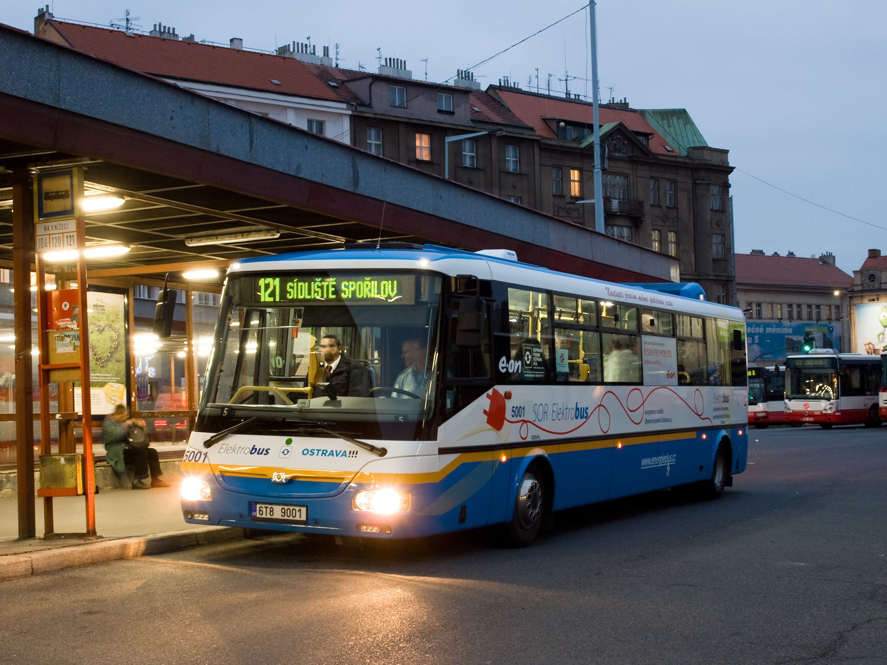 SOR EBN 10,5 form Ostrava in Prague